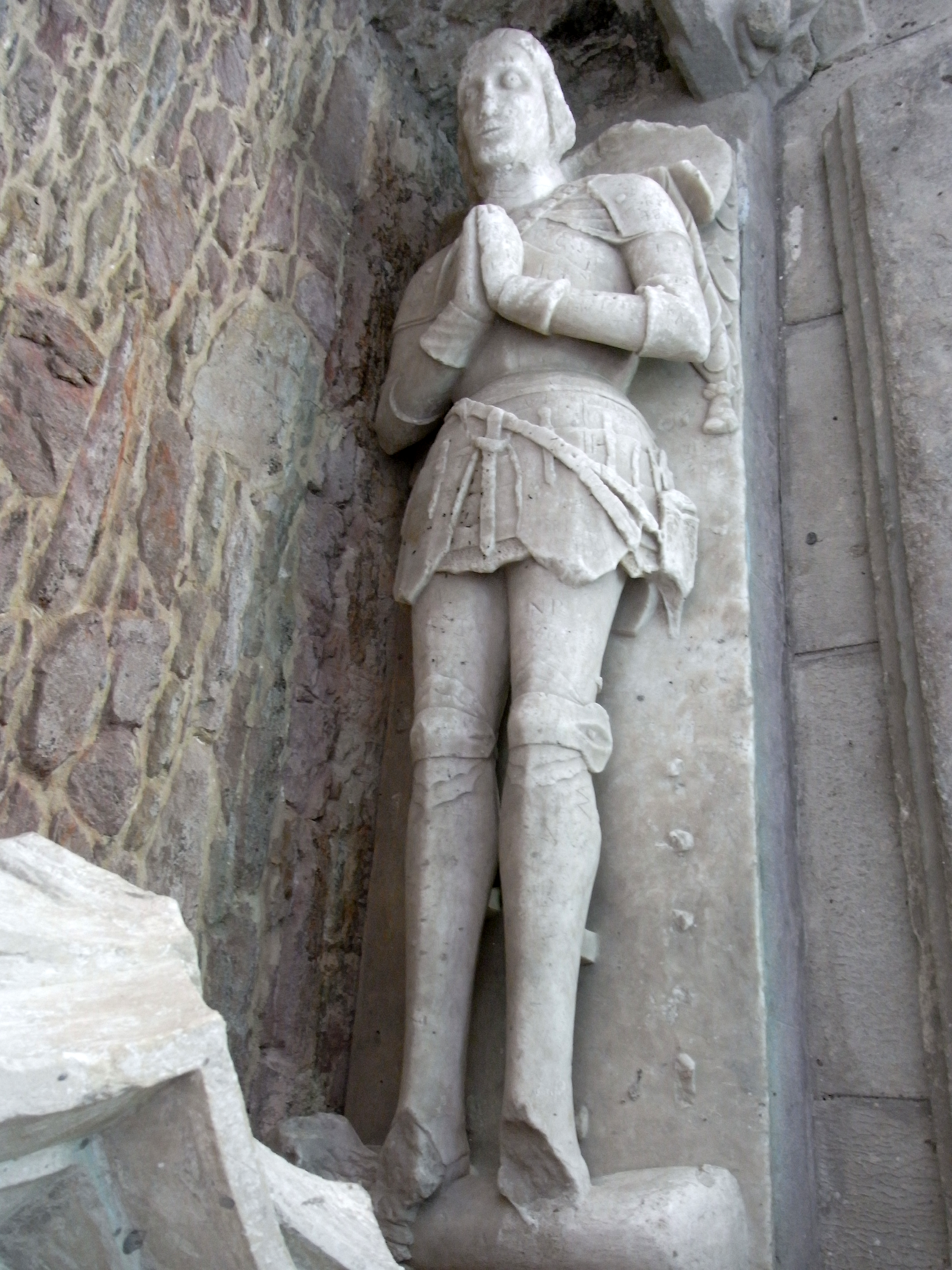 Alabaster effigy in St George's Church, Modbury, Devon, described by Pevsner as "effigy c.1460" (Pevsner, Nikolaus & Cherry, Bridget, The Buildings of England: Devon, London, 2004, p.570). This would suggest William Champernowne (d.1464), of Modbury, lord of the manor of Modbury, who married Elizabeth Chidderleigh, daughter and heiress of John Chidderleigh. (Vivian, Lt.Col. J.L., (Ed.) The Visitations of the County of Devon: Comprising the Heralds' Visitations of 1531, 1564 & 1620, Exeter, 1895, p.162). His son was Sir John Champernowne (1458–1503) of Modbury, possibly another candidate for the effigy. The effigy is similar to the alabaster effigy of Robert Willoughby, 1st Baron Willoughby de Broke (c. 1452–1502) in Callington Church in Cornwall, both wearing livery collars of roses.[1] Willoughby married Blanche Champernowne, one of the co-heiresses of Champernowne of Bere Ferrers, and a half-second-cousin of William Champernowne (d.1464) of Modbury. Willoughby's contemporary was Sir John Champernowne (1458–1503) of Modbury who married Margaret Courtenay (c.1459-1504), a daughter of Sir Philip Courtenay (died 1488) lord of the manor of Molland, Devon, Sheriff of Devon in 1470, the second son of Sir Philip Courtenay (1404–1463) lord of the manor of Powderham, Devon, by his wife Elizabeth Hungerford.(Vivian, Lt.Col. J.L., (Ed.) The Visitations of the County of Devon: Comprising the Heralds' Visitations of 1531, 1564 & 1620, Exeter, 1895, p.162 (pedigree of Champernowne), pp.246,251 (pedigree of Courtenay)).